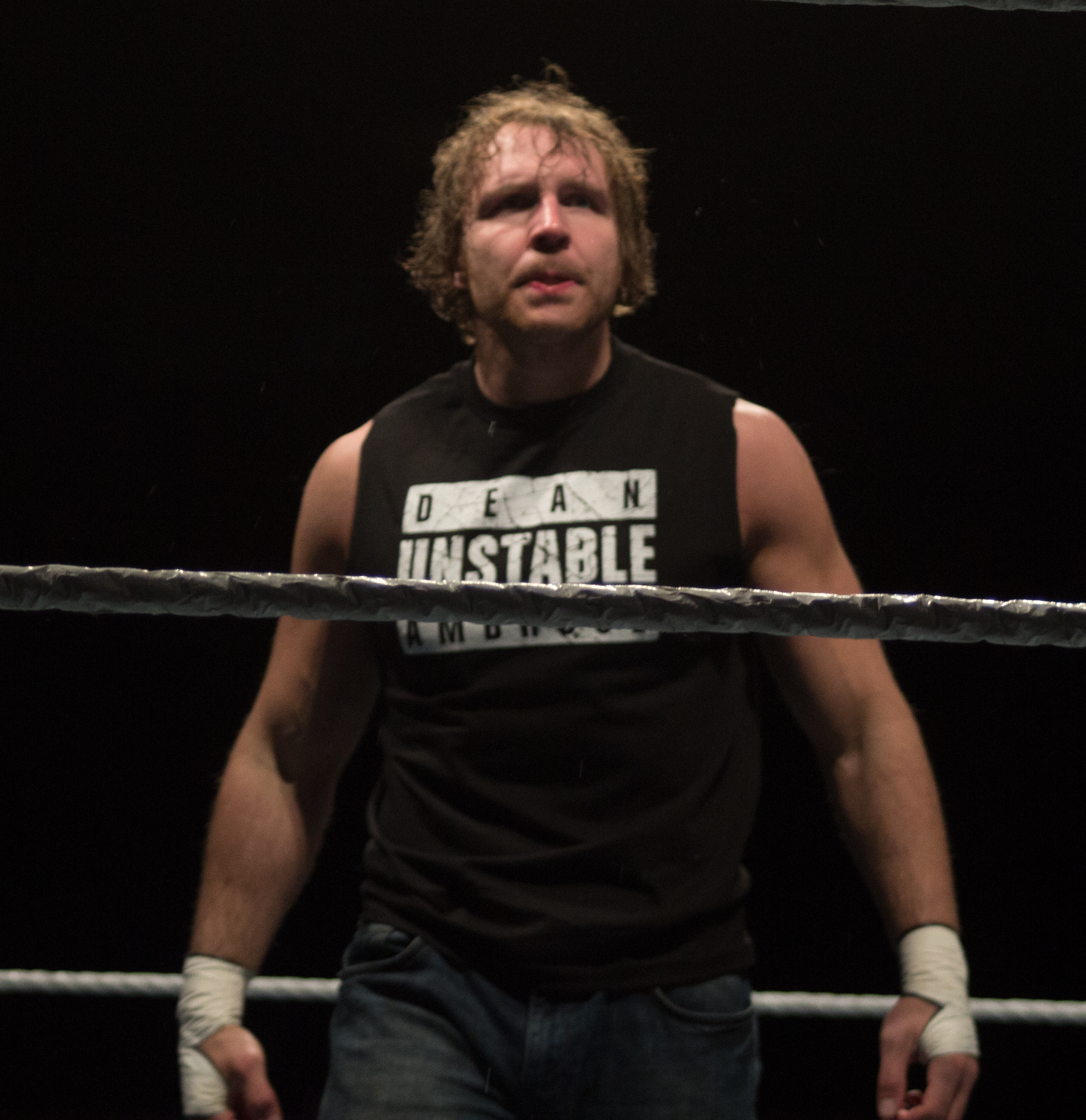 Dean Ambrose during a WWE House Show in january 2015.